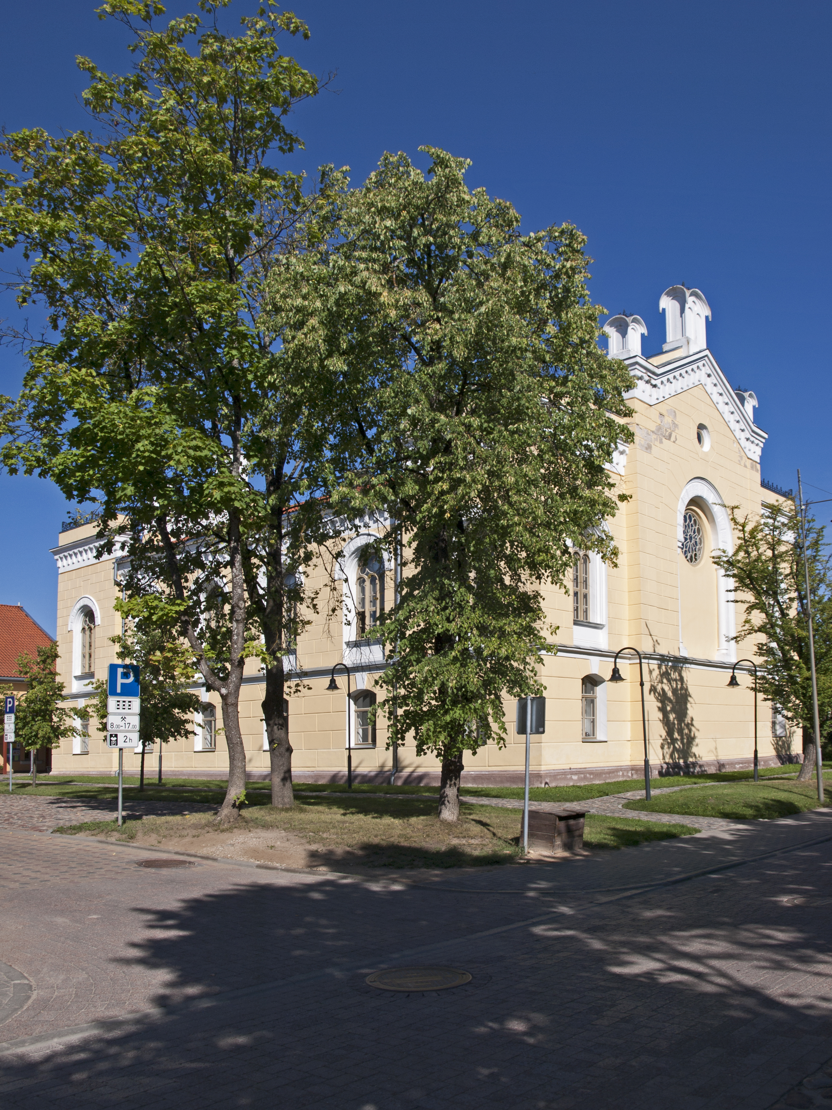 Former synagogue in Kuldiga, currently hosts a library